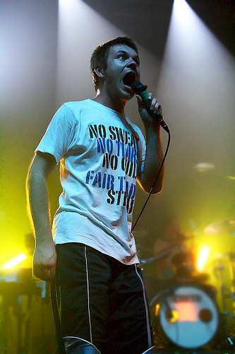 Enter Shikari, Live @ London Astoria